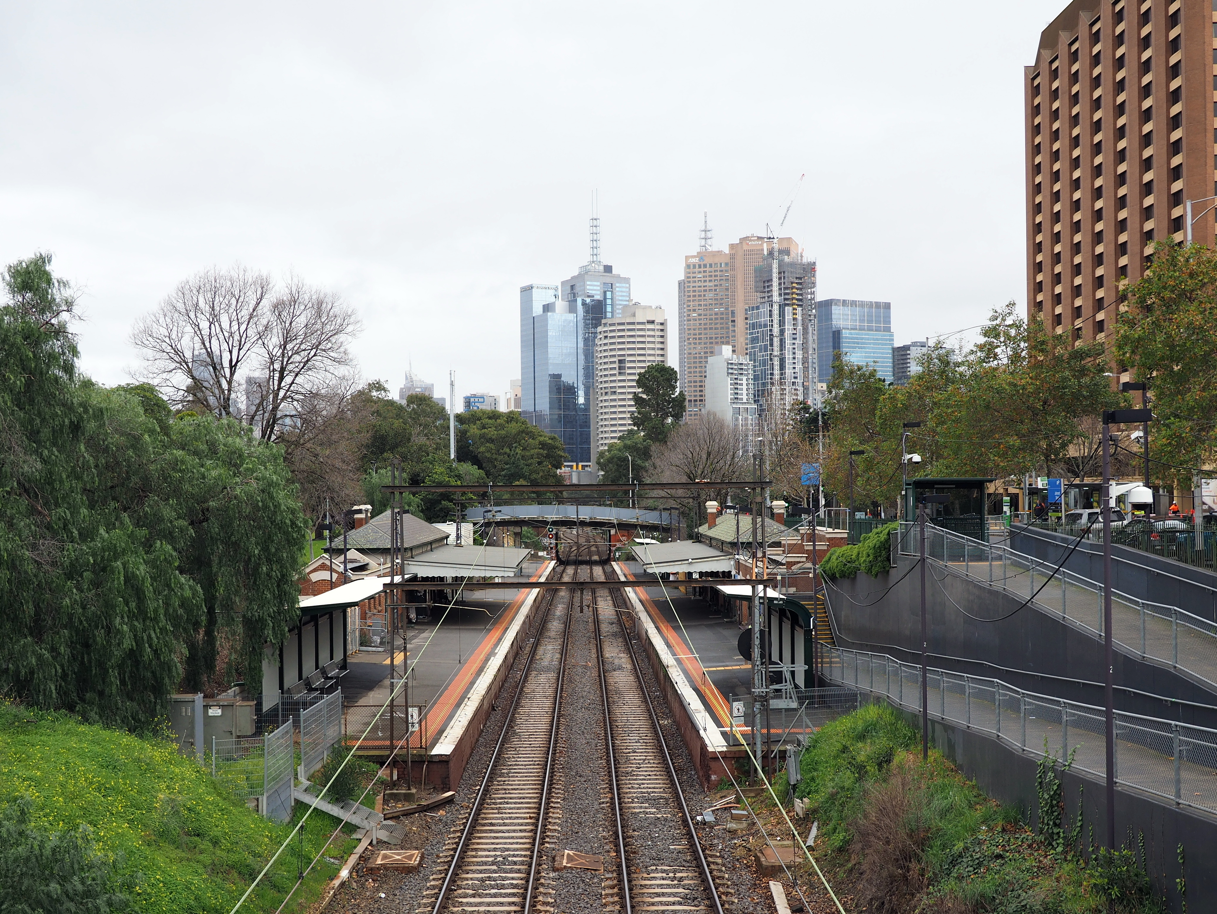 Jolimont railway station viewed from the west